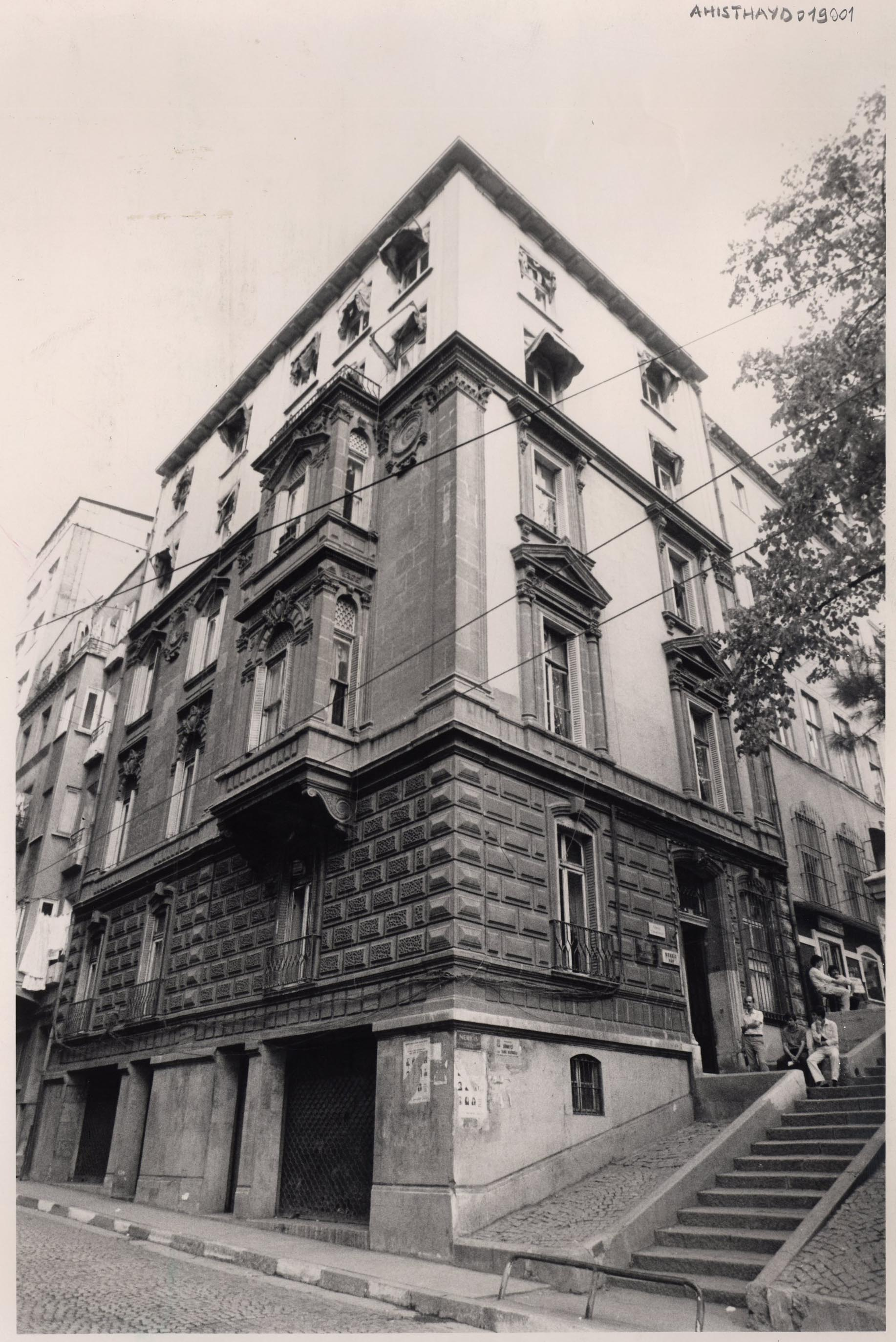 “Alexandre Vallaury, kendisinden önceki yabancı ve azınlık mimarlarının aksine, batı mimarlığı ile birlikte, Osmanlı mimarlığını da iyi biliyordu. Bu nedenle Vallaury’nin tasarımları, batı ve doğu mimarlığının bir sentezi gibidir. Alexandre Vallaury’nin meslek yaşamının ilk yıllarında tasarladığı yapılarının büyük bir bölümü Galata ve Pera’da bulunmaktadır. [...] Pera Palas Oteli, Osmanlı Bankası Genel Müdürlügü, Cercle d’Orient (Büyük Kulüp), Décugis Evi ve Union Française gibi yapılar bu dönemin ürünleridir. [...] Daha sonra ise, mimar çoğunlukla geleneksel Türk konut mimarlığının yeni yorumuna girişerek, en güzel ürünlerini verecektir. Abdülmecid Efendi Köşkü, Afif Paşa Yalısı, Rıdvan Paşa Köşkü, Osman Reis Camisi ile Büyük Ada’daki Eski Rum Yetimhanesi bu dönemin ürünleridir. [...] Mimar, İstanbul’da Galata, Beyoğlu, Eminönü, Cağaloğlu, Sultanahmet, Boğaziçi, Haydarpaşa, Erenköy ve Büyükada’da tasarlayıp gerçekleştirdiği yapılarıyla kentin genel görünümü ve silüetine olumlu katkılarda bulunmuştur.” Kaynak: Mustafa Server Akpolat’ın “Fransız Kökenli Levanten Mimar Alexandre Vallaury” başlıklı doktora tezi SALT Araştırma - Fotoğraf Arşivi